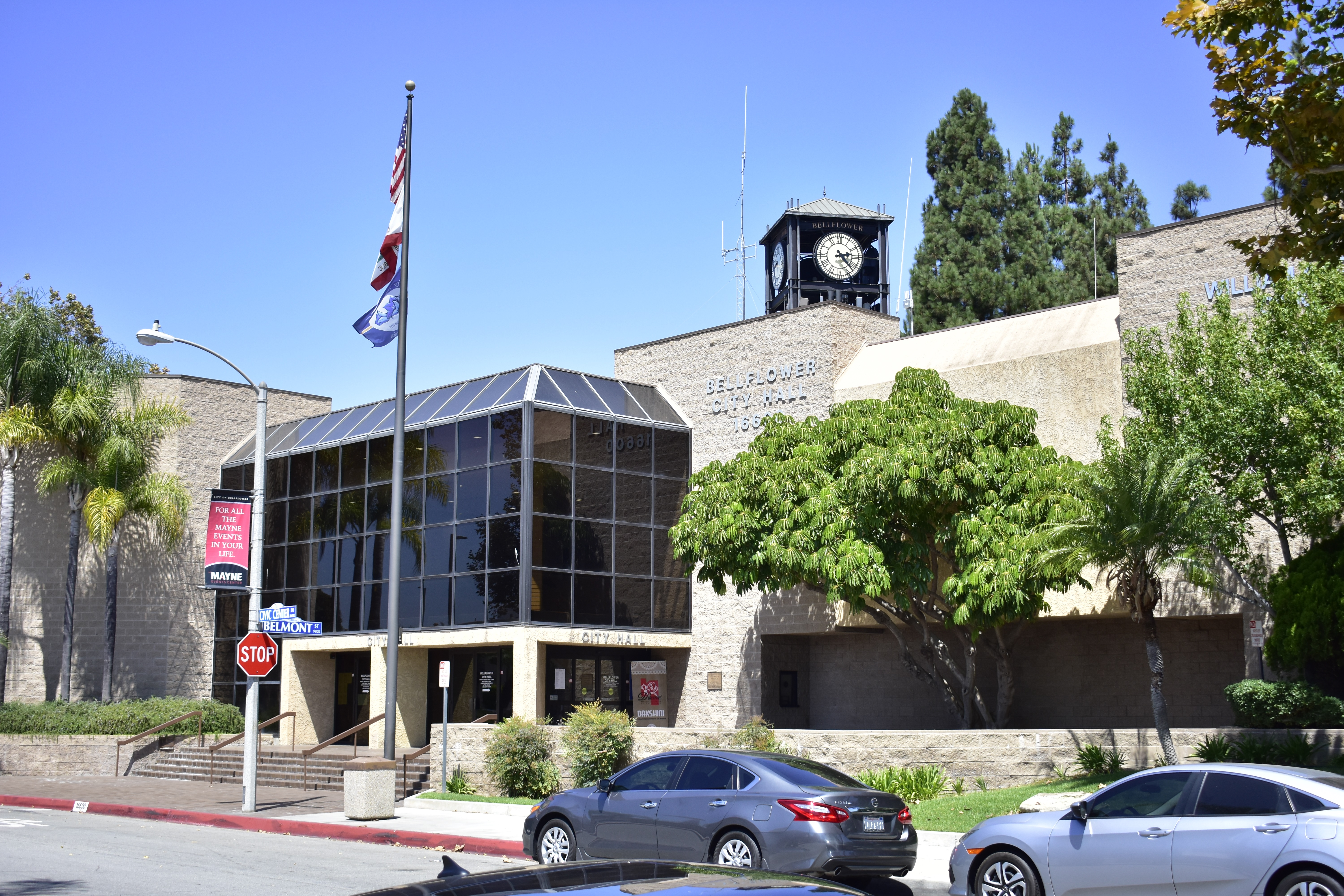 City hall of Bellflower, California on 10 August 2019